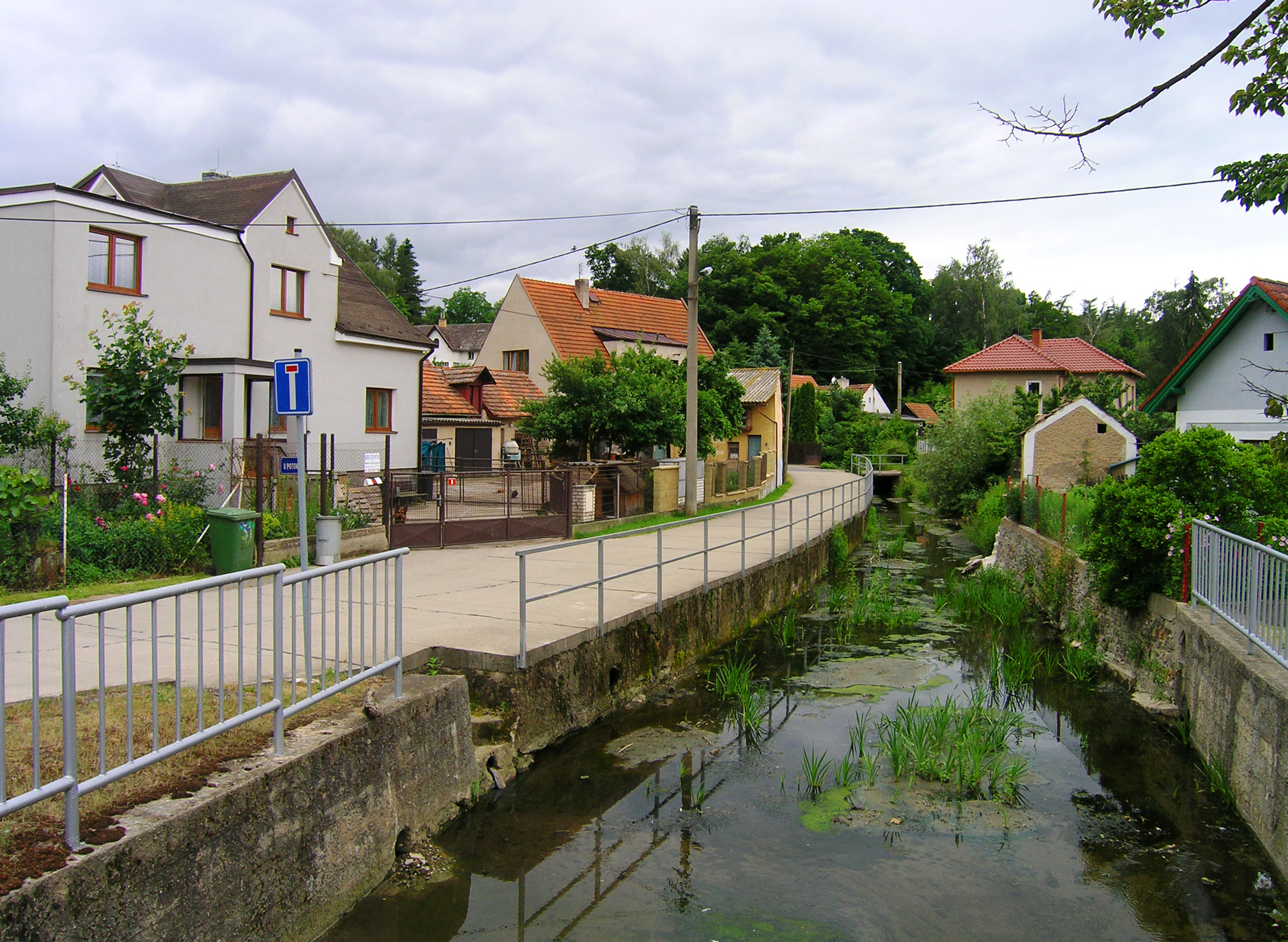 U Potoka street in Dobřejovice, Czech Republic